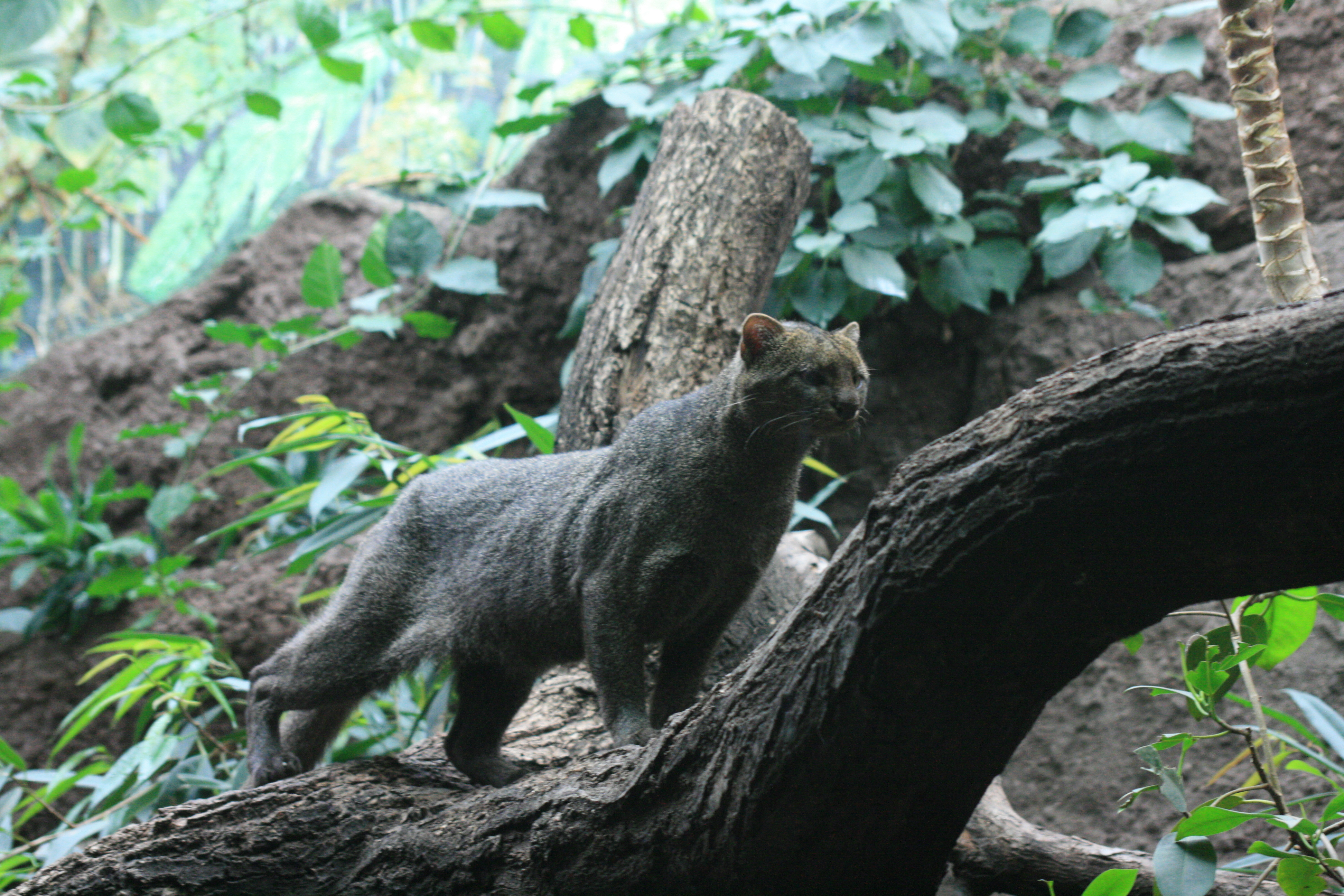 Jaguarundi (Puma yagouaroundi)